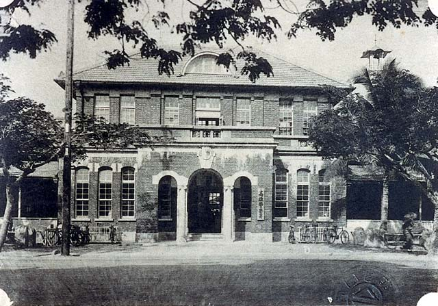 Takao Keisatsu-sho中文（台灣）: 高雄郡役所Bân-lâm-gú: Ko-hiông Kūn-ia̍h-só͘